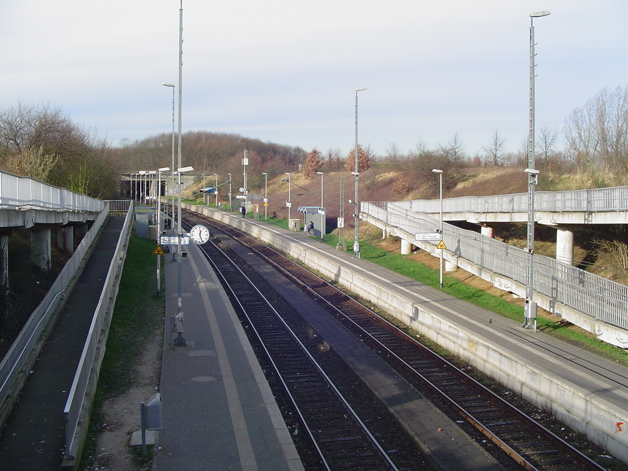 Train station K-Blumenberg (S-Bahn) in Cologne, Germany